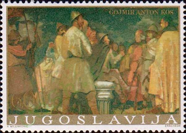 Demotion of a knyaz by Gojmir Anton Kos